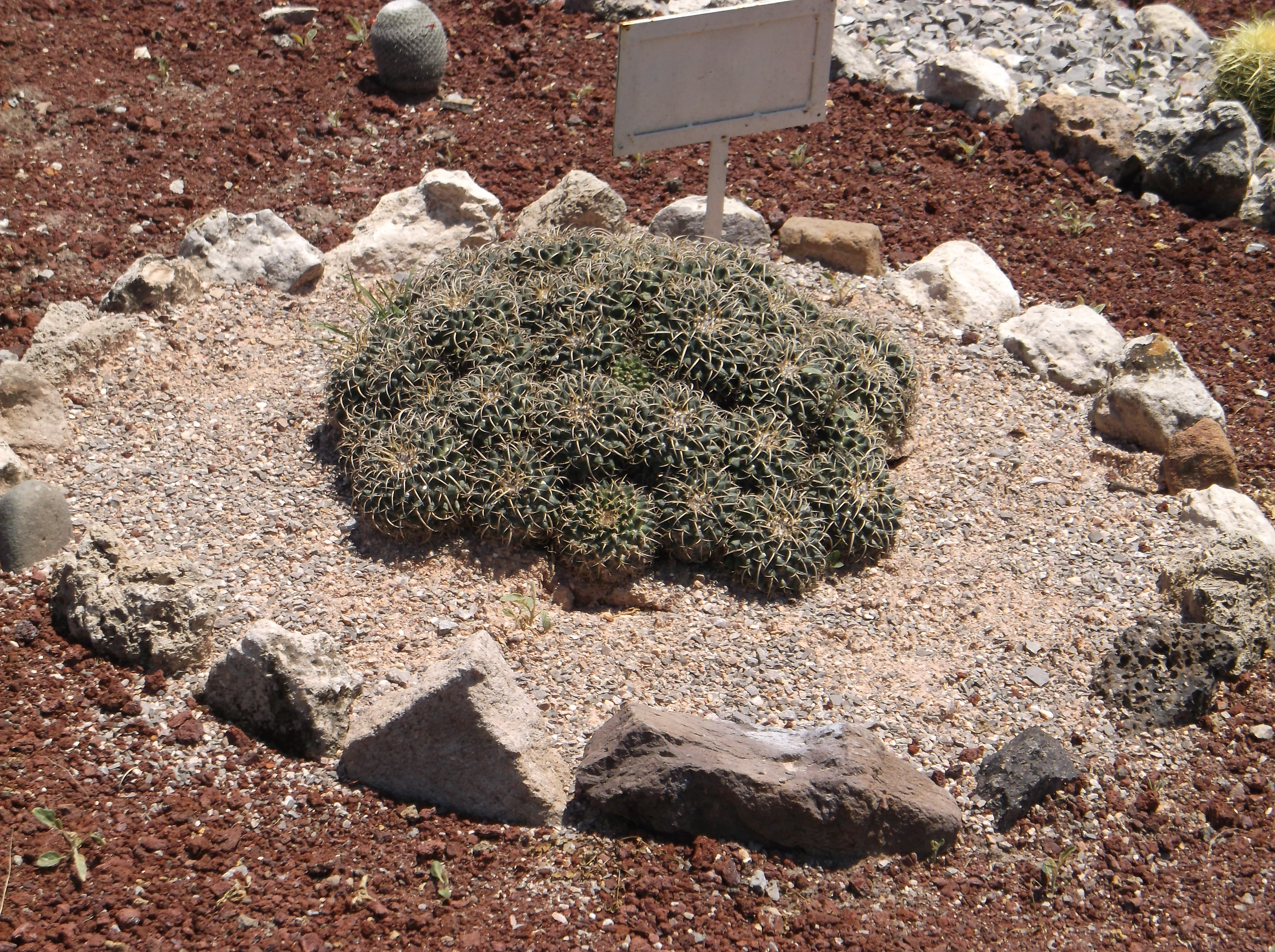 cactus in the cactus garden at the Tula Archeological site. Mammillaria magnimamma / Volcanes